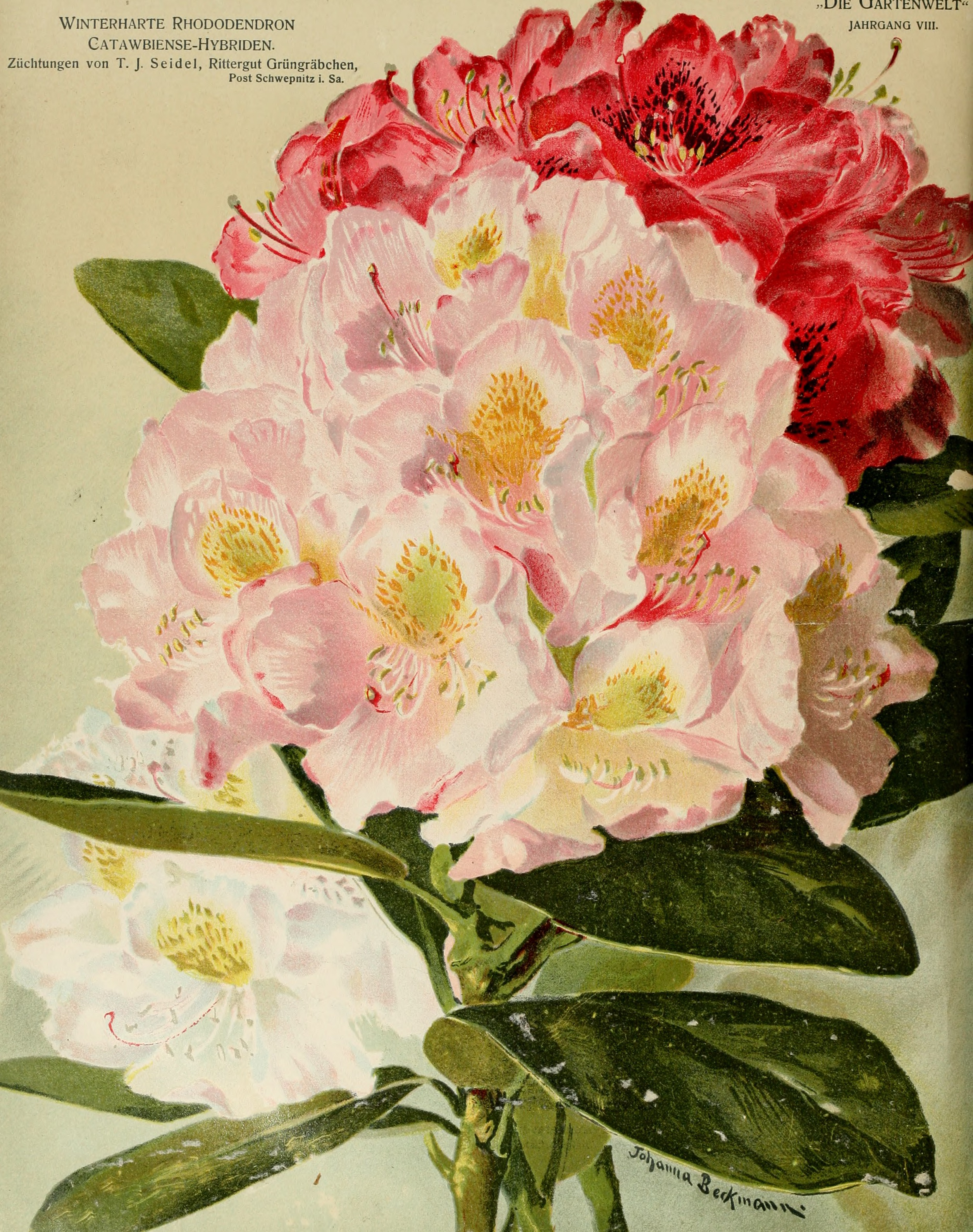 Title: Die Gartenwelt Year: 1897 (1890s) Authors: Subjects: Gardening Publisher: Berlin : G. Schmidt Text Appearing Before Image: Winterharte Rhododendron Gatawbiense-Hybriden. ^ Züchtungen von T. J. Seidel, Rittergut Grüngräbchen, Post Schwepnitz i. Sa. „Die Garten WELT" JAHRGANG VIII. Text Appearing After Image: '